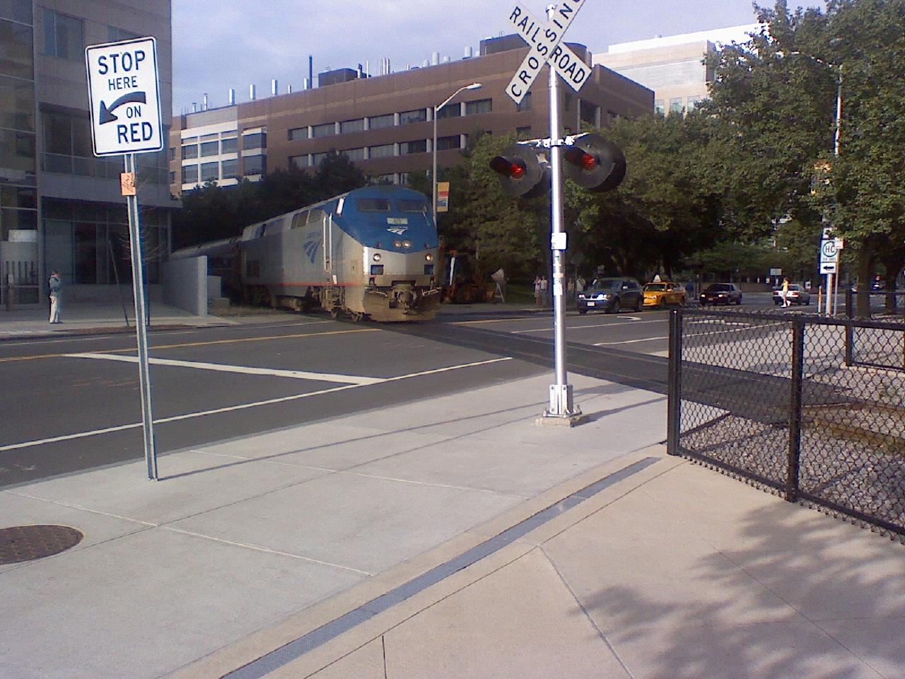 An Amtrak P42DC locomotive crossing Main Street on the Grand Junction Railroad in Cambridge, Massachusetts